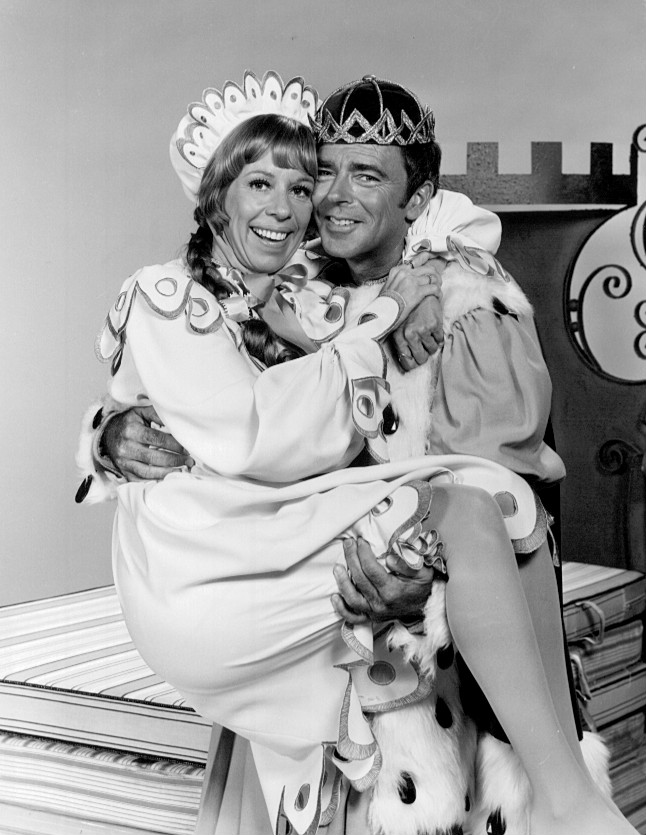 Publicity photo of Carol Burnett and Ken Berry from the television presentation of the play Once Upon a Mattress.